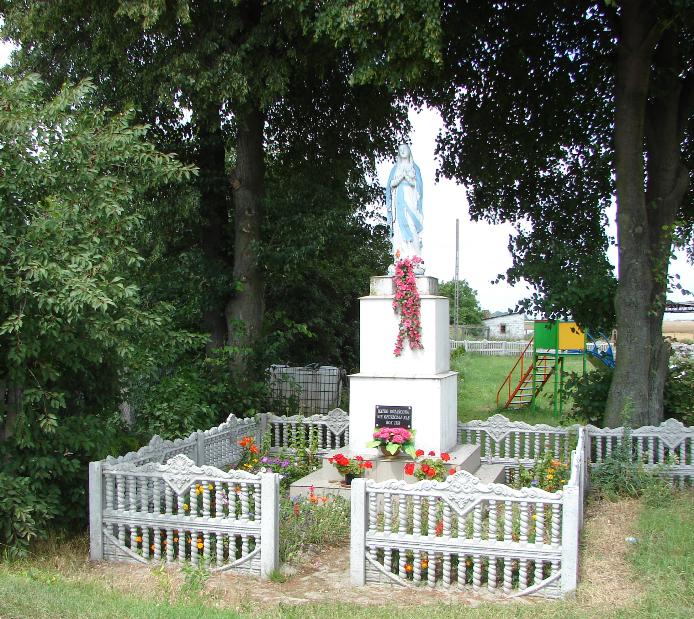 Poddębice, Gmina Włocławek. The wayside shrine, built in 1958.